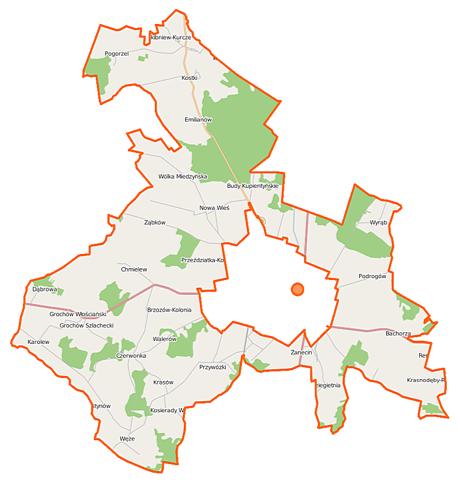 Map of Gmina Sokołów Podlaski, Poland This map of Sokołów Podlaski (gmina wiejska) was created from OpenStreetMap project data, collected by the community. This map may be incomplete, and may contain errors. Don't rely solely on it for navigation. Border coordinates52.513922.0746←↕→22.348652.3389